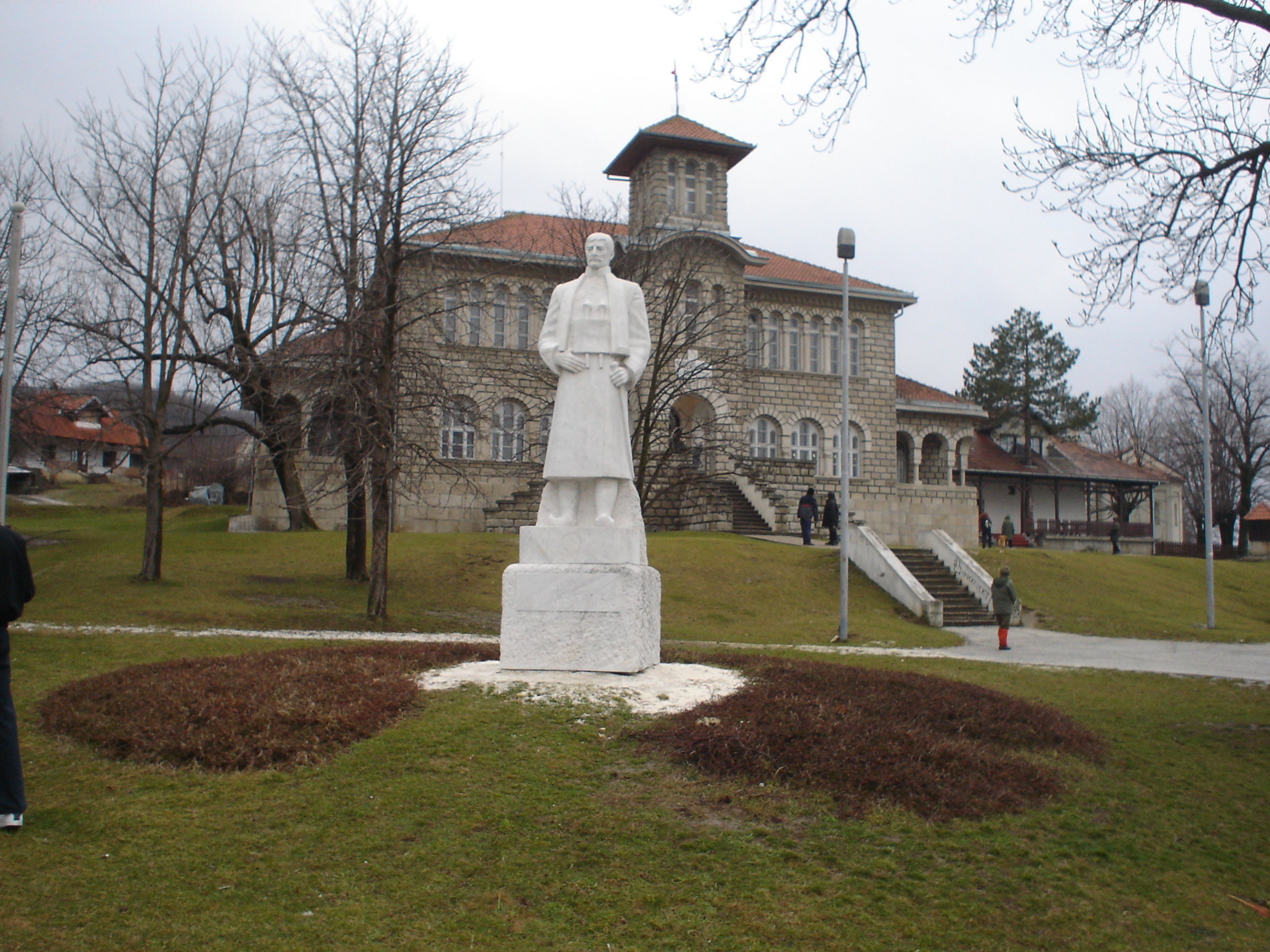 Monument of Karađorđe in front of school in Orašac, near Aranđelovac, Serbia.